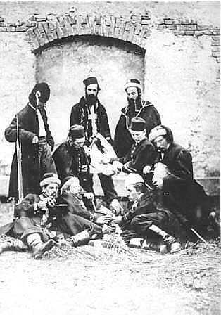 January Uprising participants at Święty Krzyż 1863